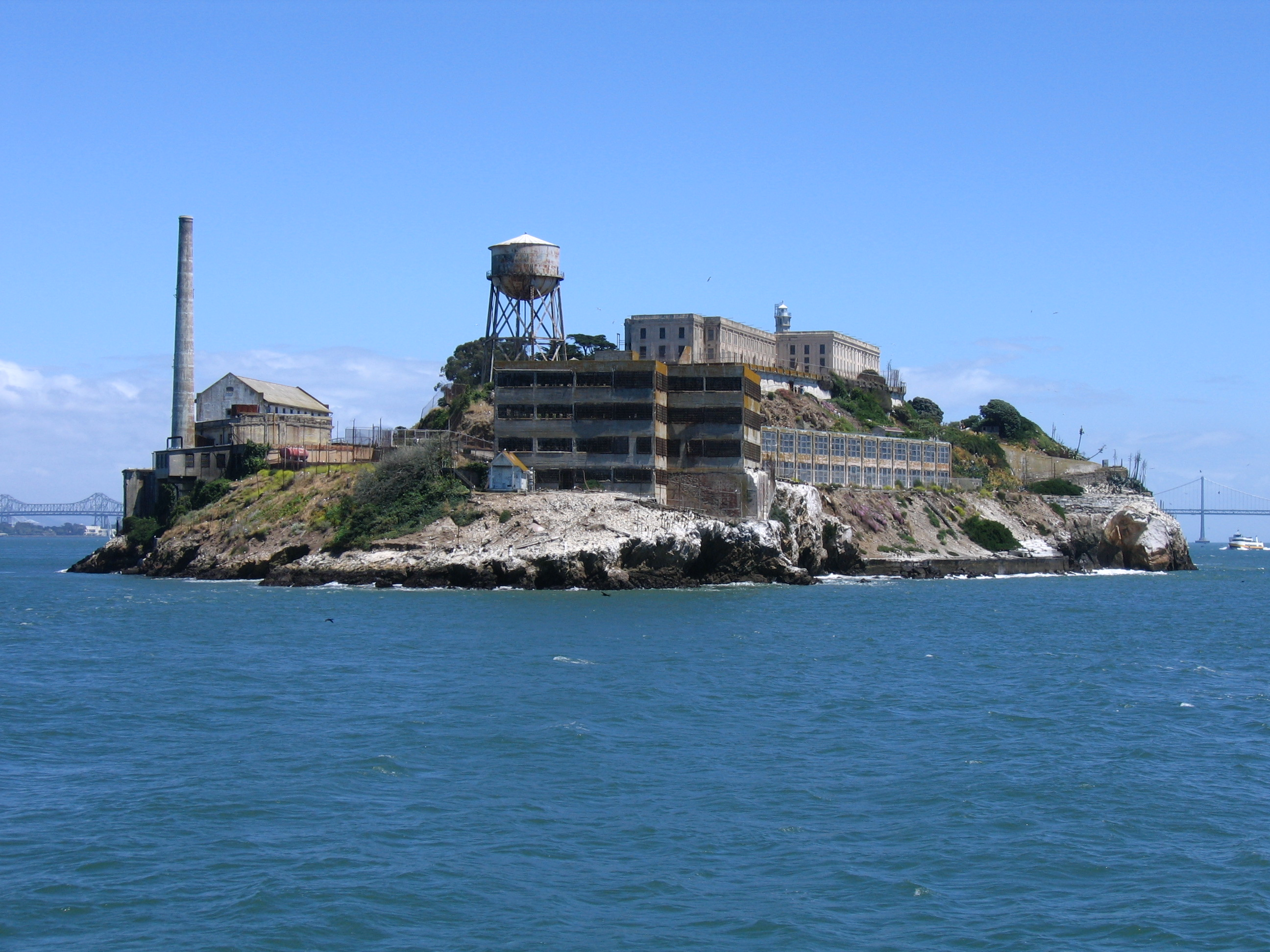 A photograph of Alcatraz Island from a boat in the bay.